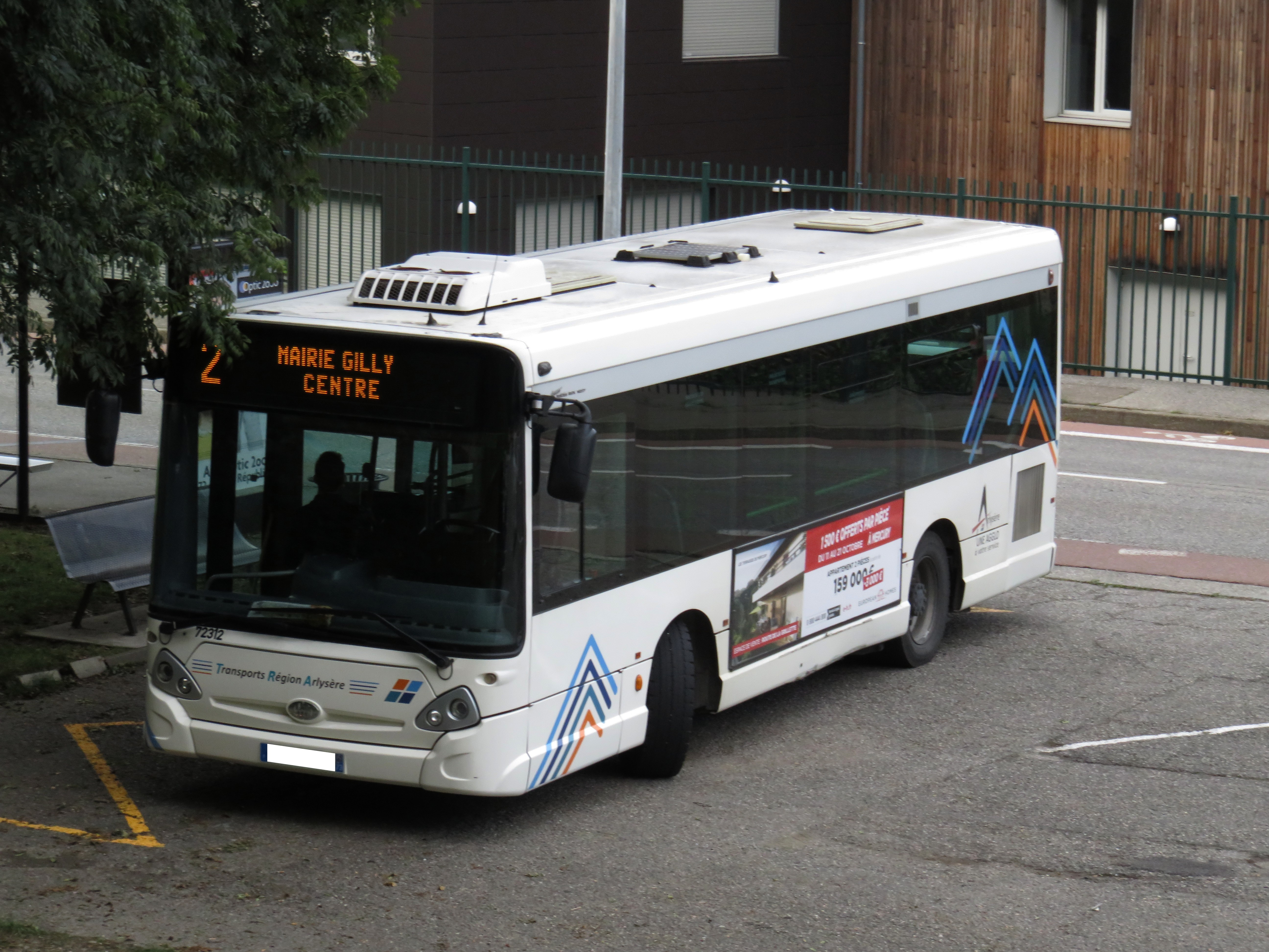 A Heuliez GX 127 (n°72313 of Transdev Albertville), carrying out the line 2 of the bus network Transports Région Arlysère — Collège Pierre Grange, Albertville↔Mairie Gilly centre, Gilly-sur-Isère — and stopped at the call Collège Pierre Grange (Albertville, France) on October 3, 2018.